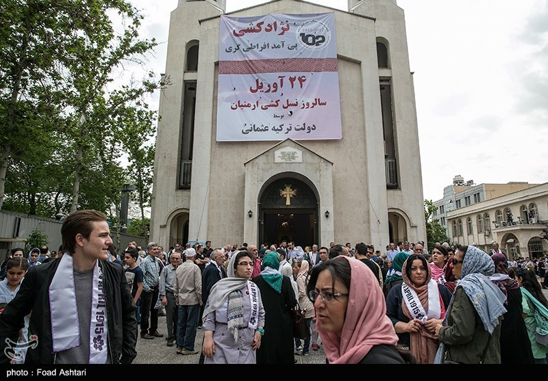 Armenian Genocide Memorial Demonstration - Tehran 2017